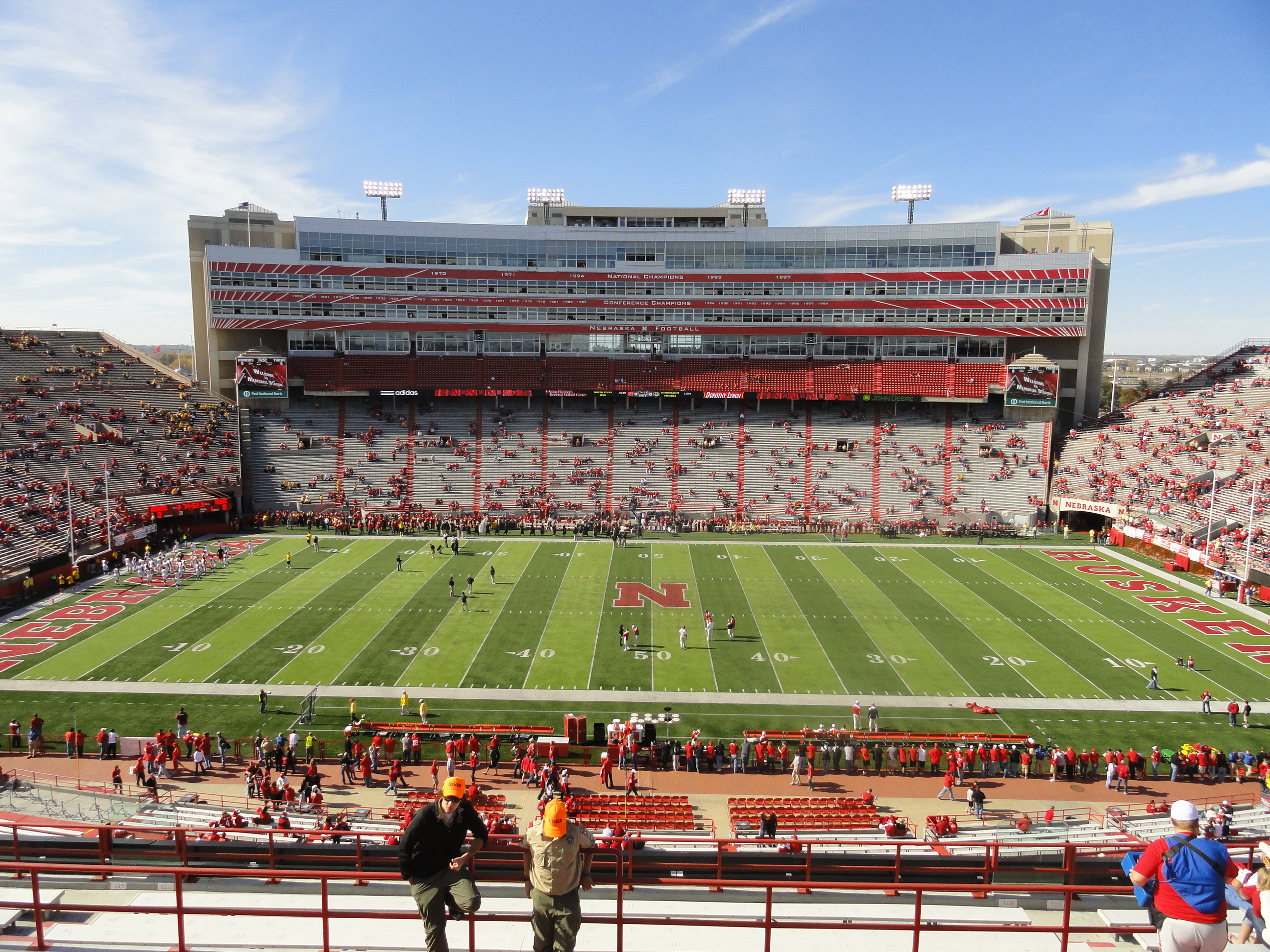 View of the playing field inside the stadium.